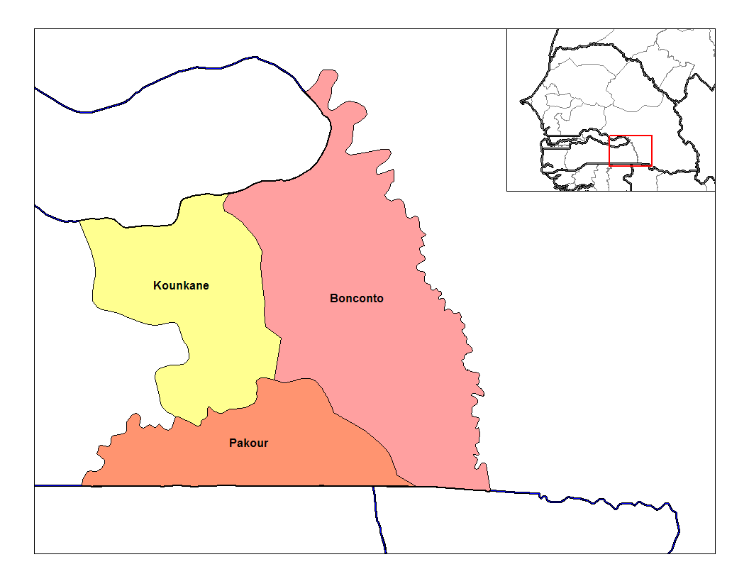 Map of the arrondissements of Velingara department in Senegal.